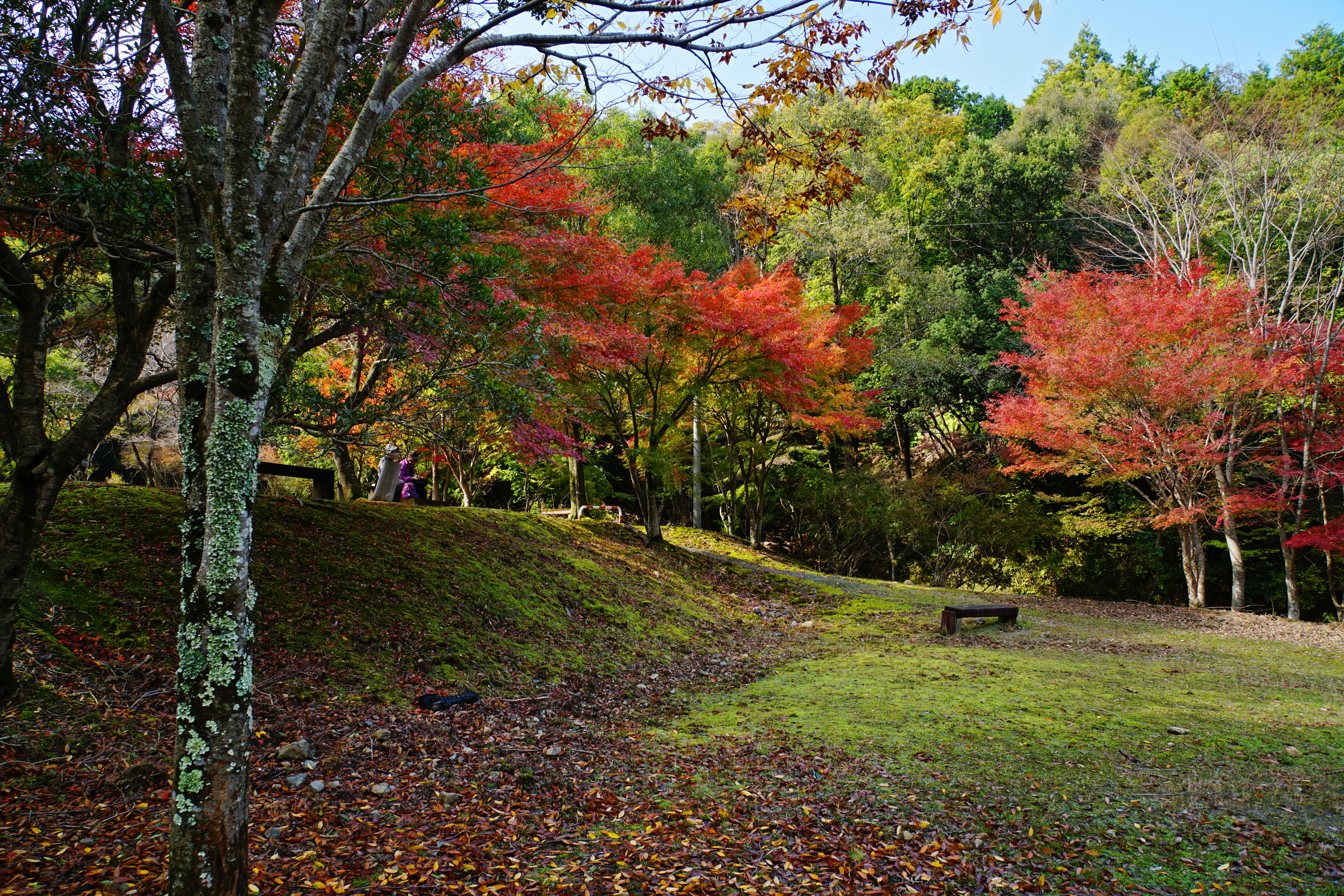 Kabusan-ji in Takatsuki, Osaka Prefecture, Japan